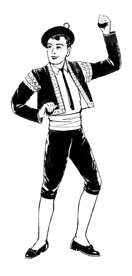 line art drawing of a man dancing the bolero